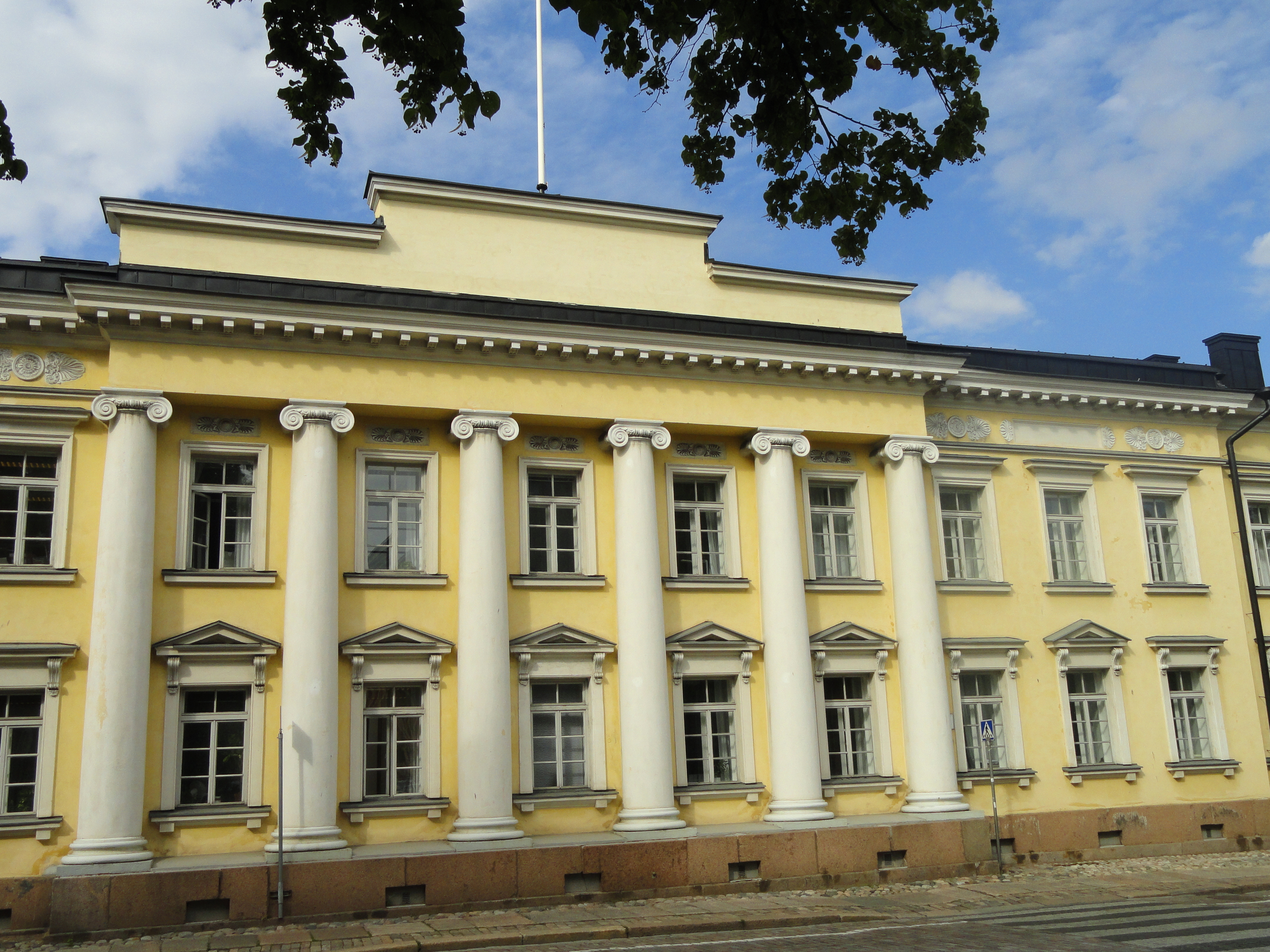 Topelia, University of Helsinki, Helsinki, Finland.